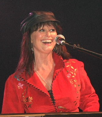 American Country music artist Jessi Colter at the 2006 South by Southwest Festival.